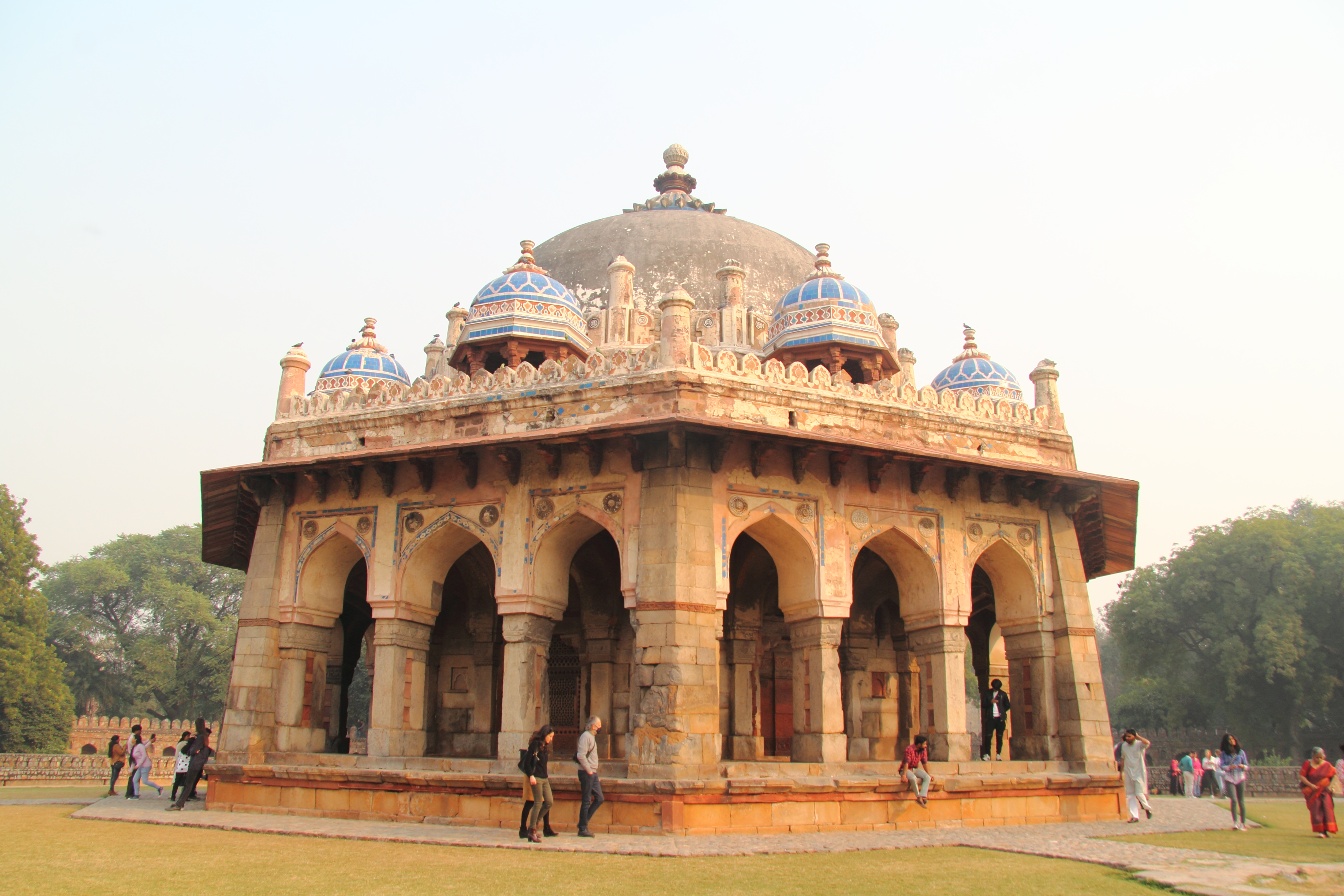 New Delhi, India: Tomb of Isa Khan Niazi, close to Humayun’s Tomb